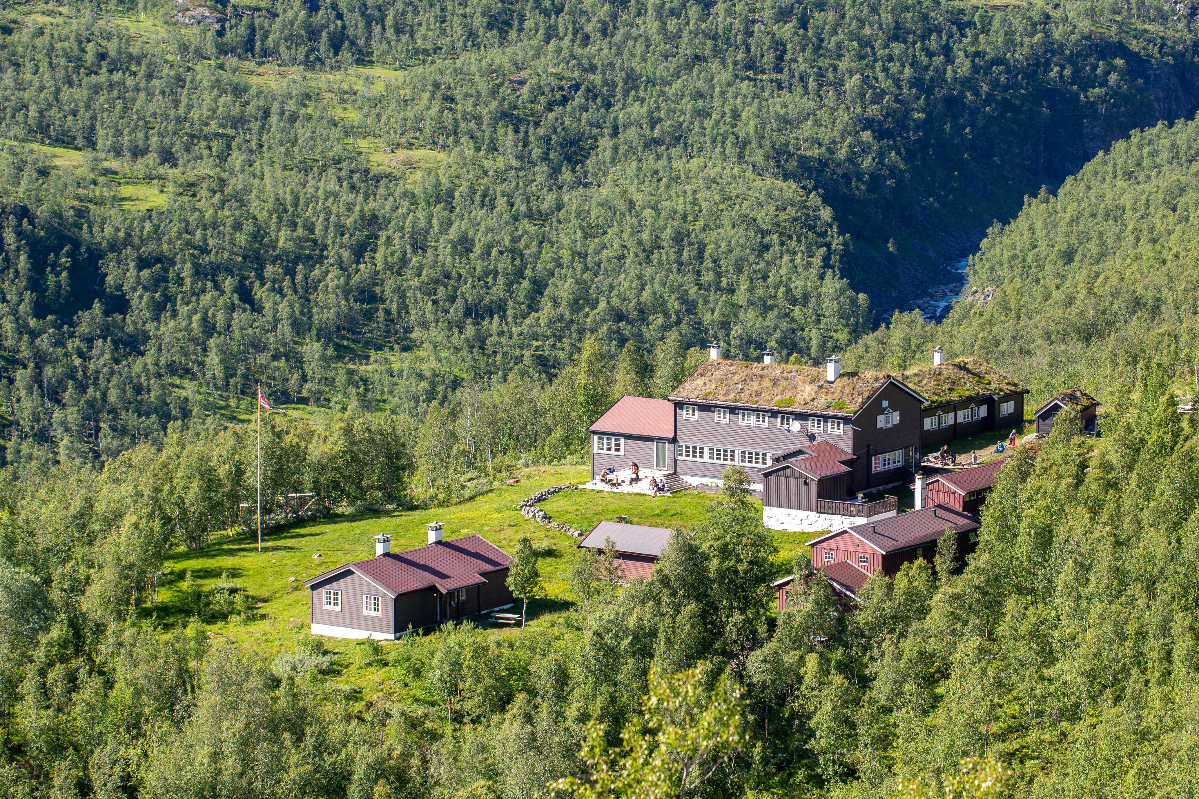 View of Skogadalsbøen